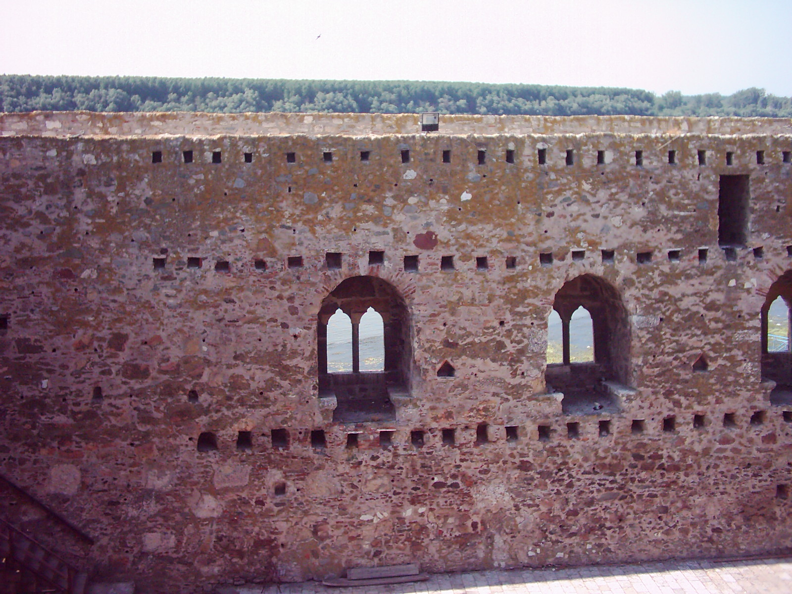 Walls in Smederevo Fortress, Serbia